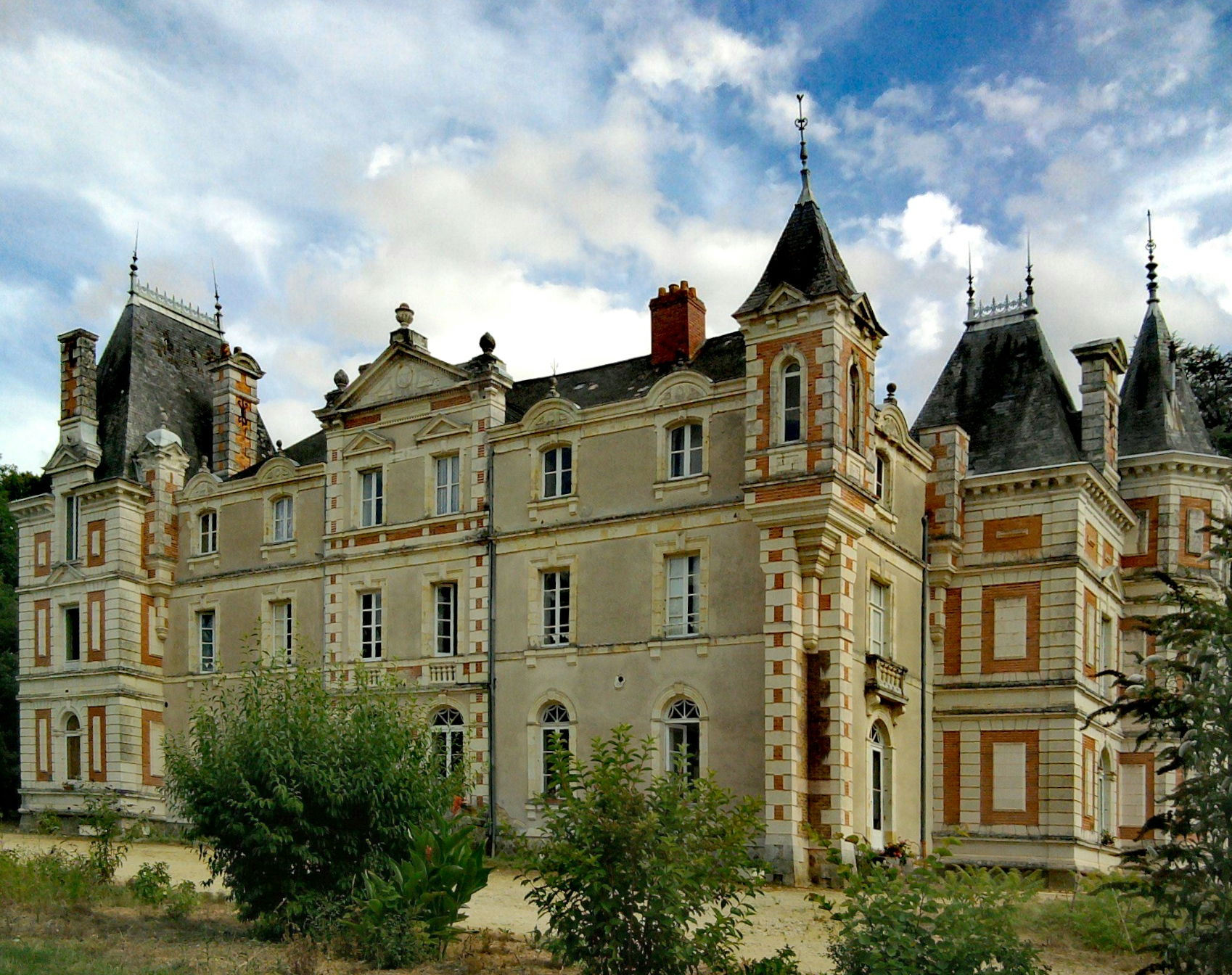 the castle of Grésillon in Baugé, France